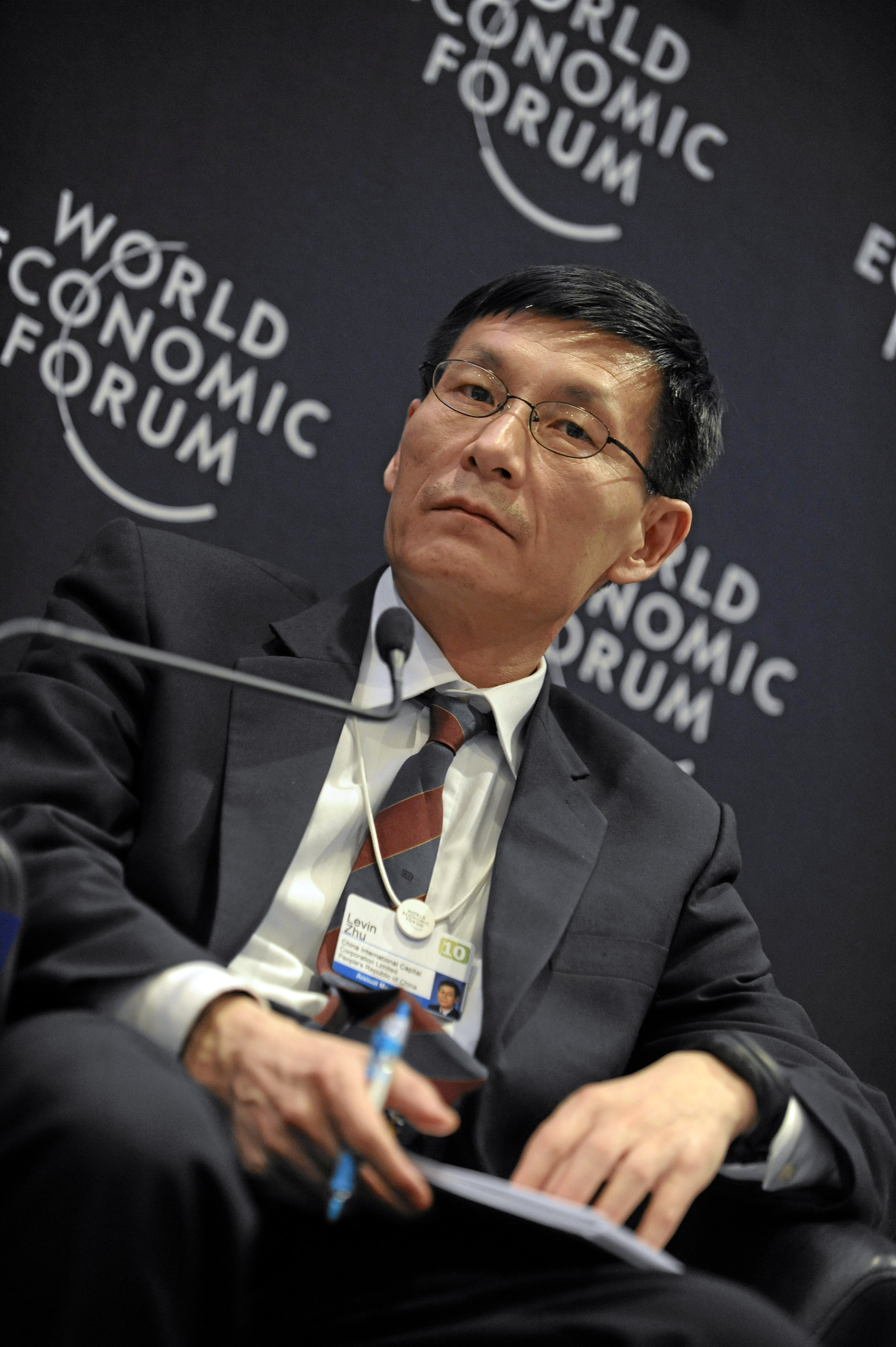 DAVOS/SWITZERLAND, 29JAN10 - Levin Zhu, President and Chief Executive Officer, China International Capital Corporation, People's Republic of China captured during the session 'Wanted: Capital' at the congress centre at the Annual Meeting 2010 of the World Economic Forum in Davos, Switzerland, January 29, 2010. Copyright by World Economic Forum by Michael Wuertenberg